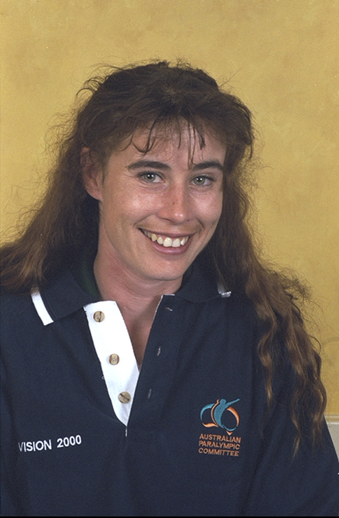 Portrait of Australian equestrian Marita Hird, 2000 Australian Paralympic Team athlete